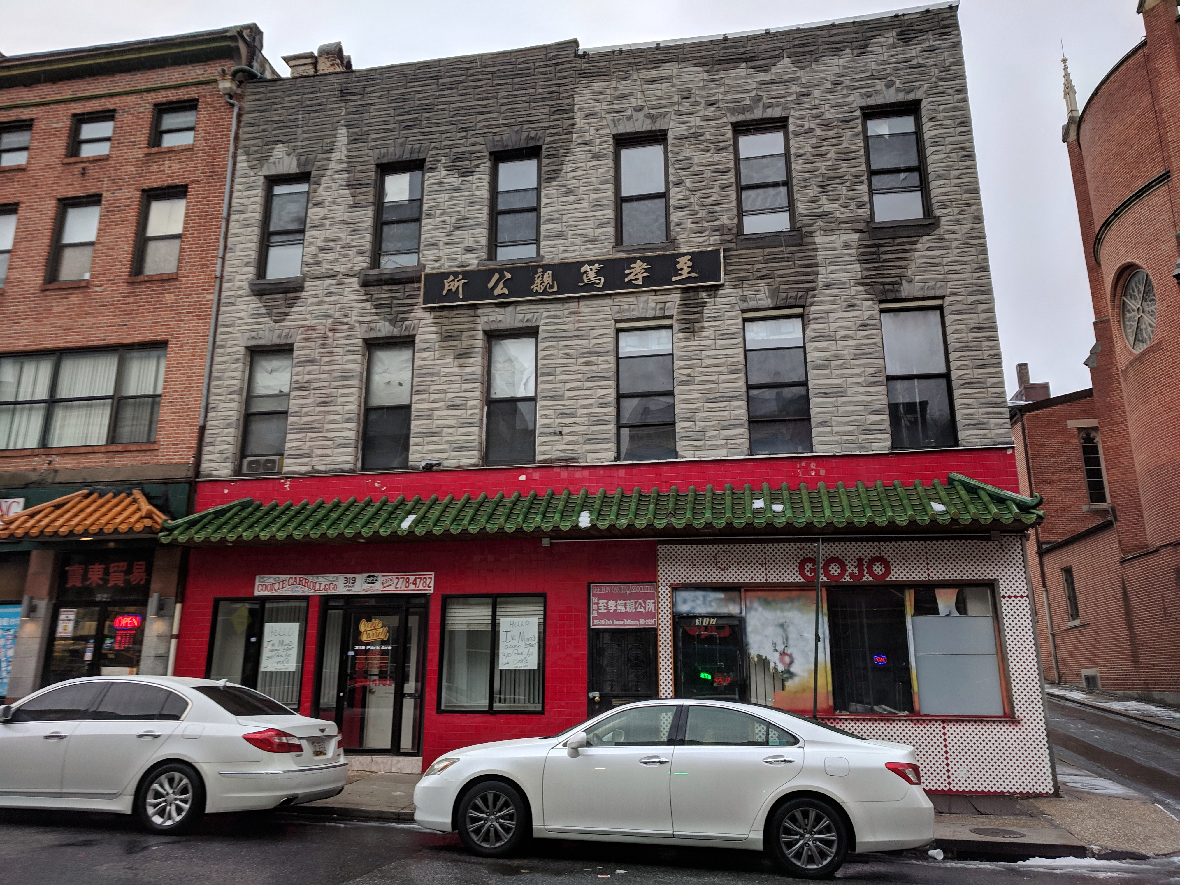 Chinatown, Baltimore, Maryland.